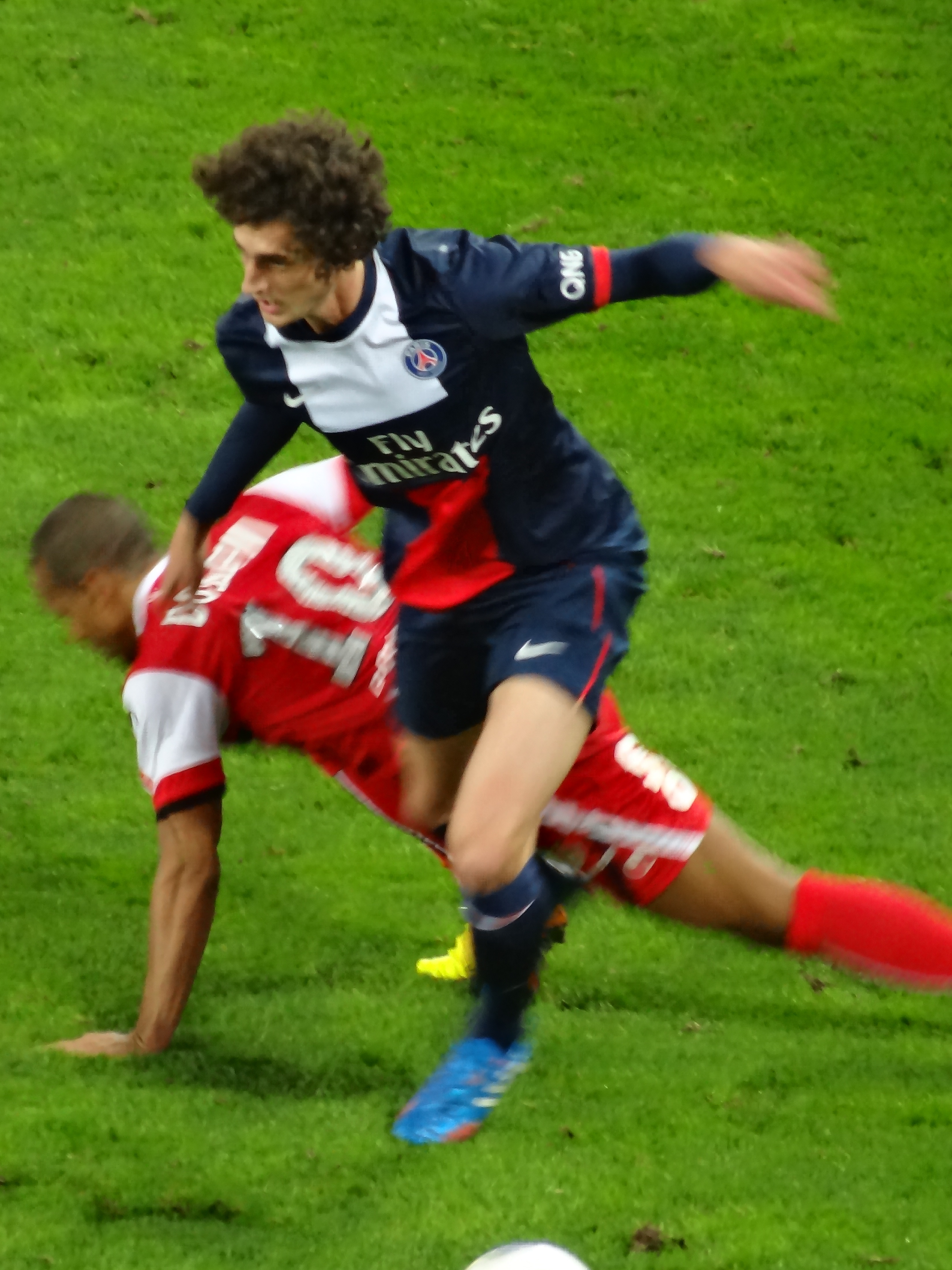 Adrien Rabiot, PSG